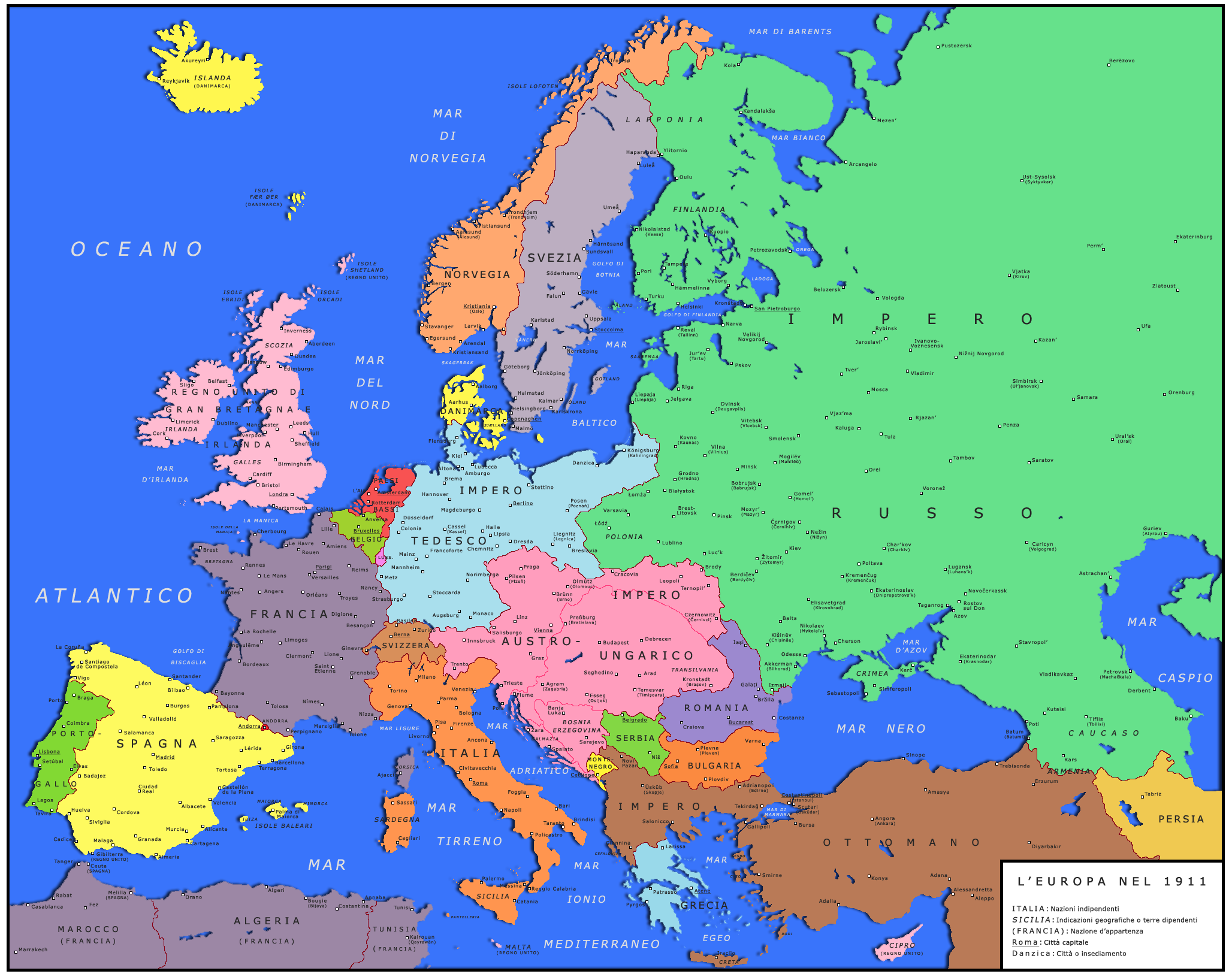 Europe in 1911, in Italian Note:A city name into brackets is the modern name used in Italian